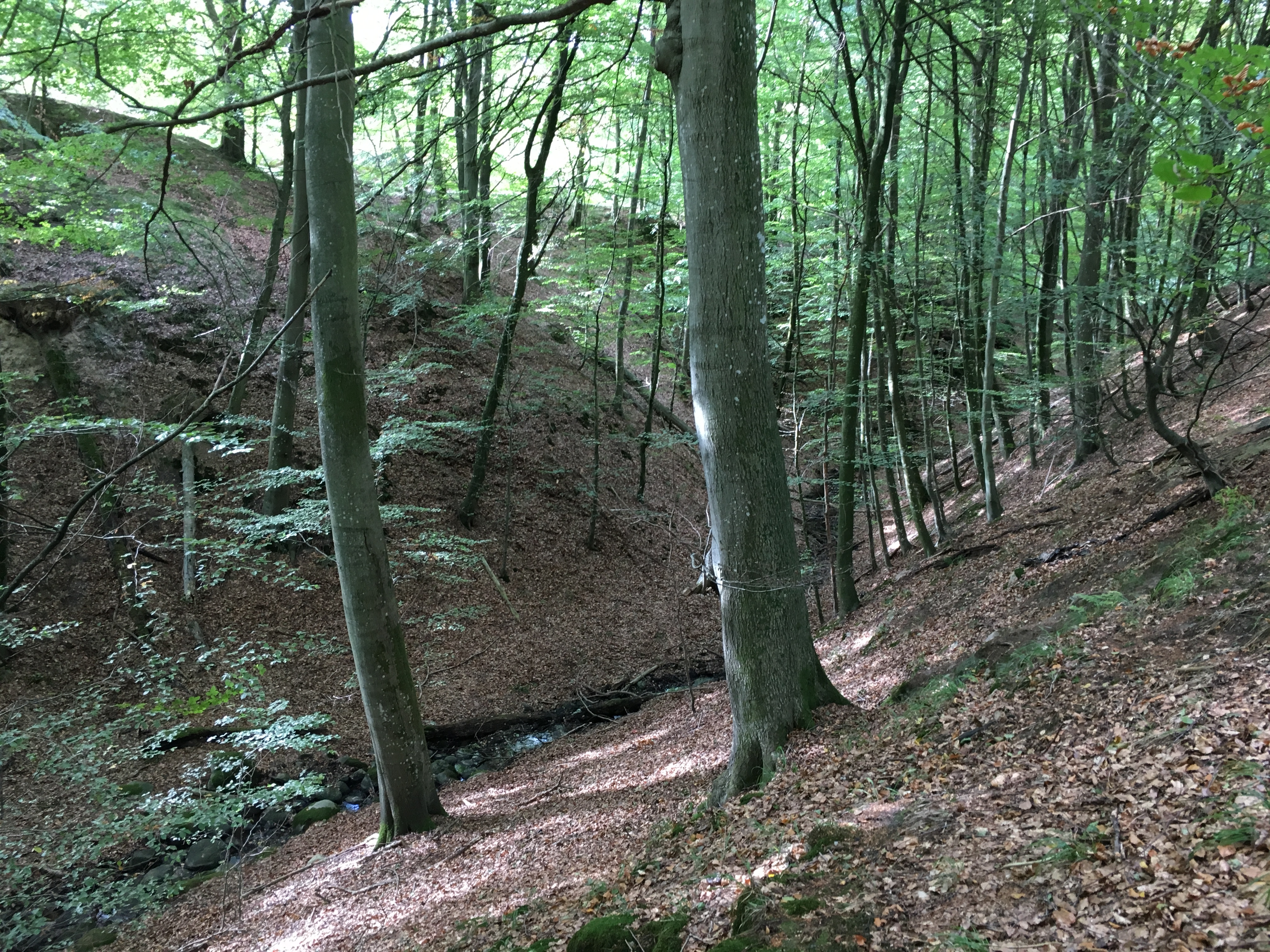 Djævlekløften (The Devil's Gully) also called Svenskekløften (Swedish Gully) in Faxe Kommune, Denmark. September 2018